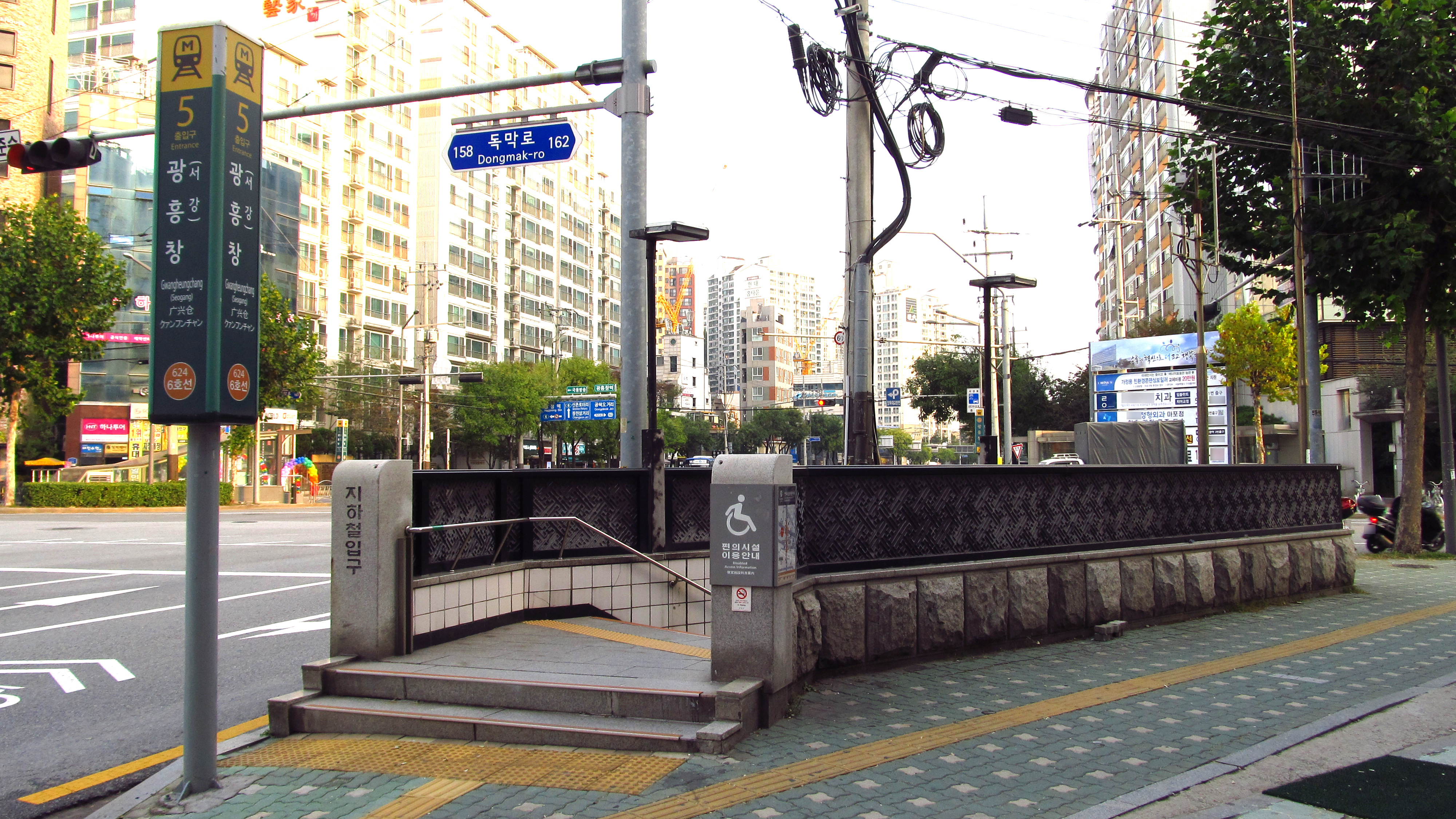 The no.5 entrance to Gwangheungchang Station on the Seoul Metro Line 6 in Mapo-gu, Seoul, Republic of Korea(South Korea)